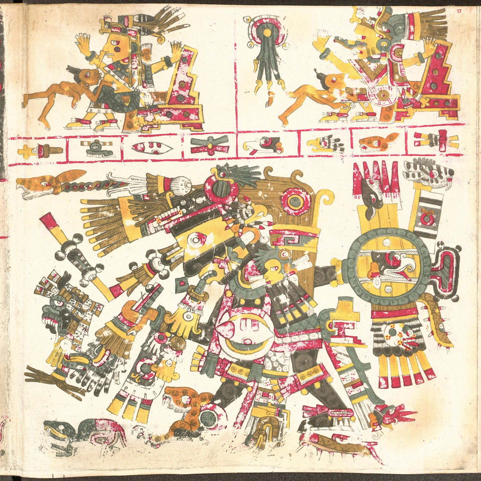 Page 17 of the Codex Borgia.